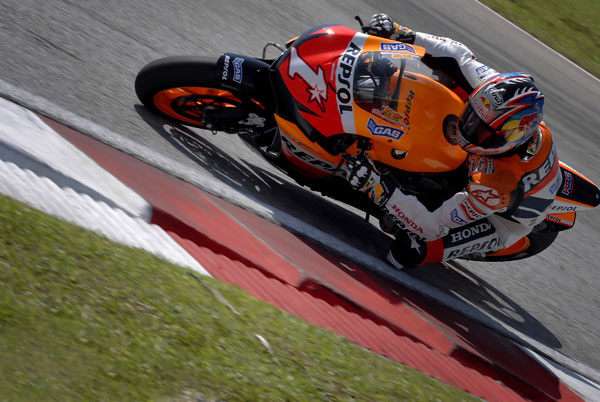 Repsol Honda team during Motogp 800cc Test, November 06 at Sepang circuit, Malaysia.